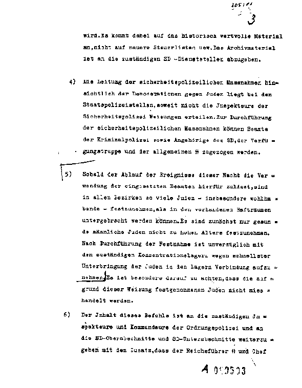 This is a telegram signed by Reinhard Heyrich to various offices of the nazi Security Service (SD), coordinating Kristallnacht with the police and the nazi party. Page 3 of 4 Previous Page Next Page This is from an online exhibit, with a translation, at the US Holocaust Memorial Museum, at This file is in the public domain, because US Government National Archives, captured nazi document In case this is not legally possible: The right to use this work is granted to anyone for any purpose, without any conditions, unless such conditions are required by law. Please verify that the reason given above complies with Commons' licensing policy.